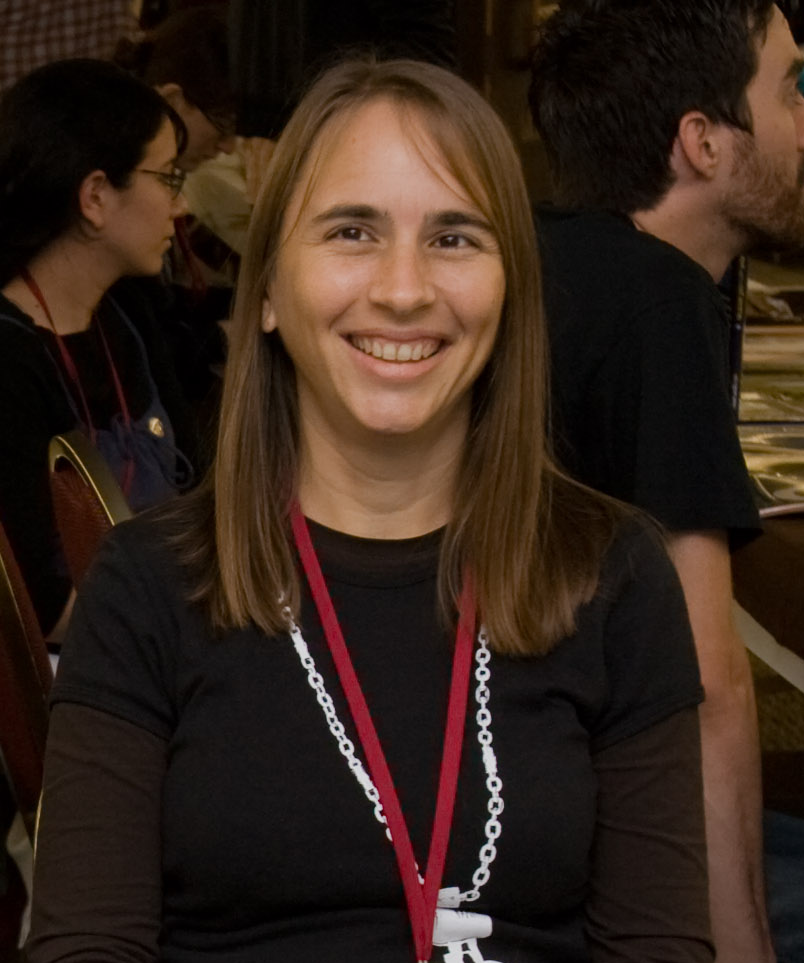 Cartoonist Stephanie McMillan at Stumptown Comics Festival 2007